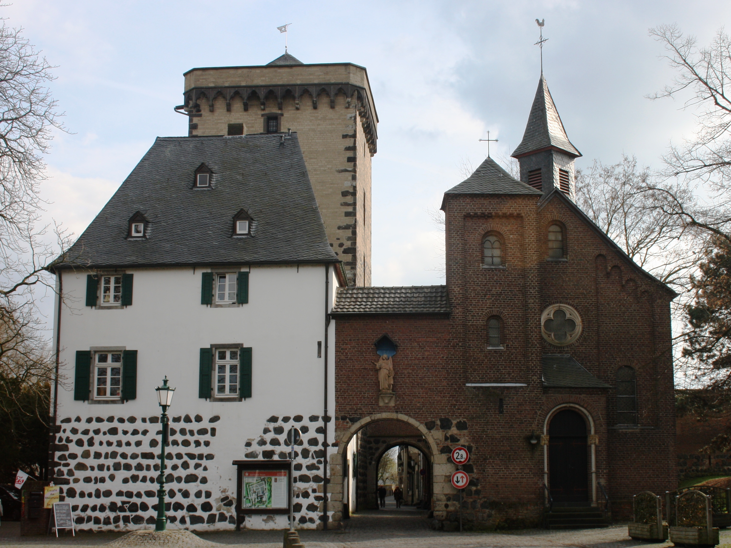 Dormagen-Zons, Germany. Rheintor city gate from north. Holy Trinity Chapel on the right